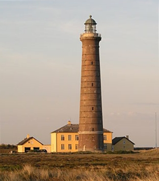 Skagen Fyr (Skagen Lighthouse). Derivative file. Photograph cropped and straightened.